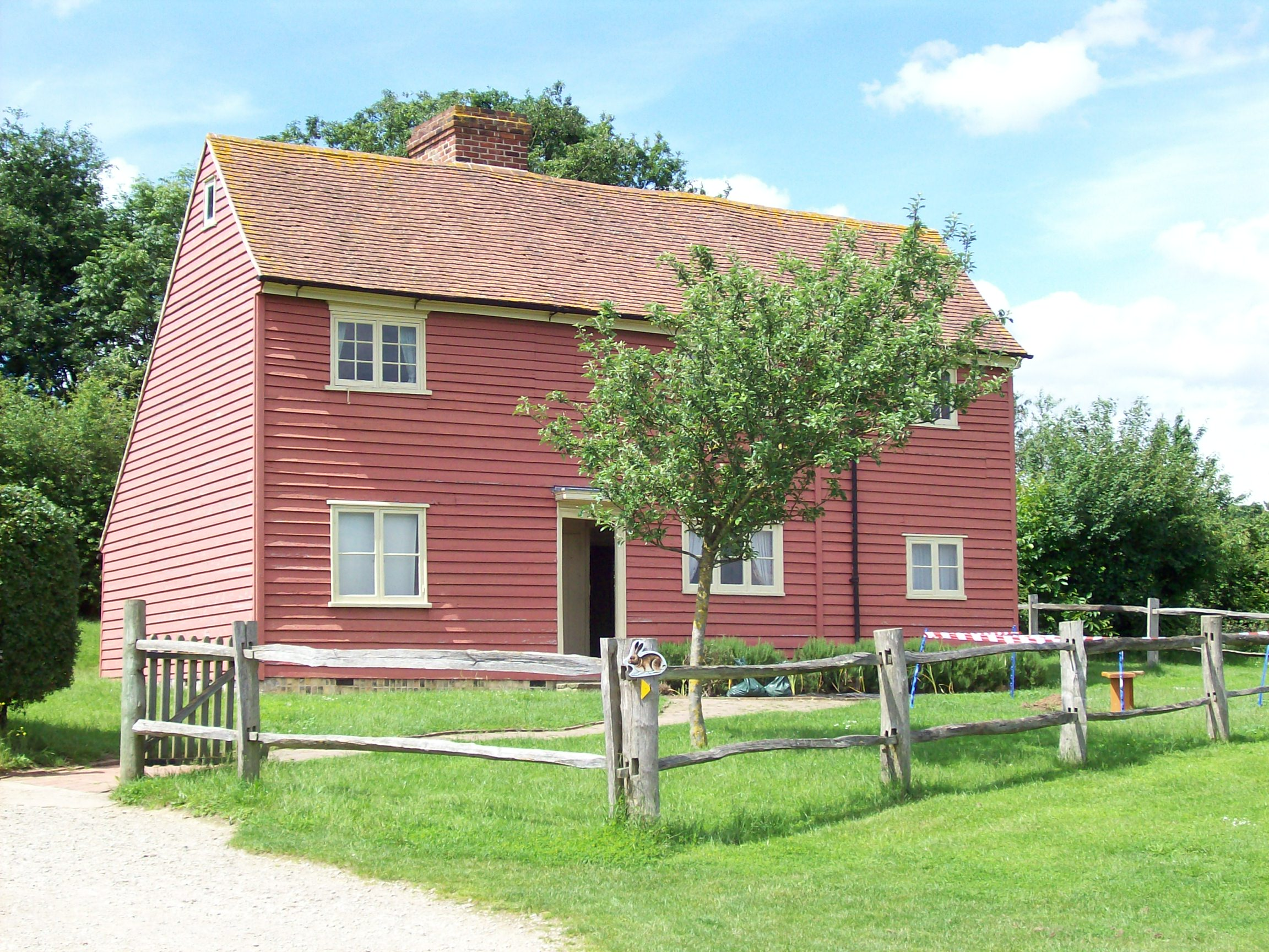 Petts Farmhouse, Museum of Kent Life